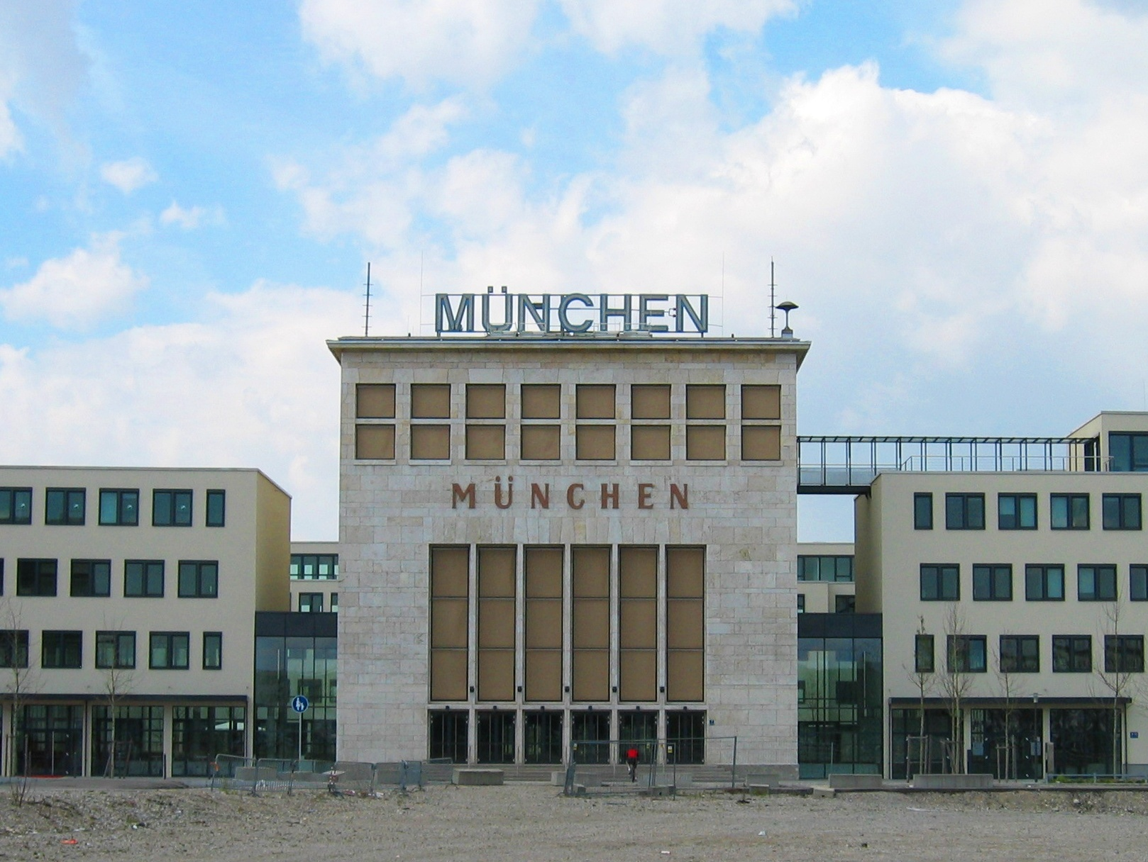 Former airport Munich Riem, main entrance hall ("Wappenhalle")